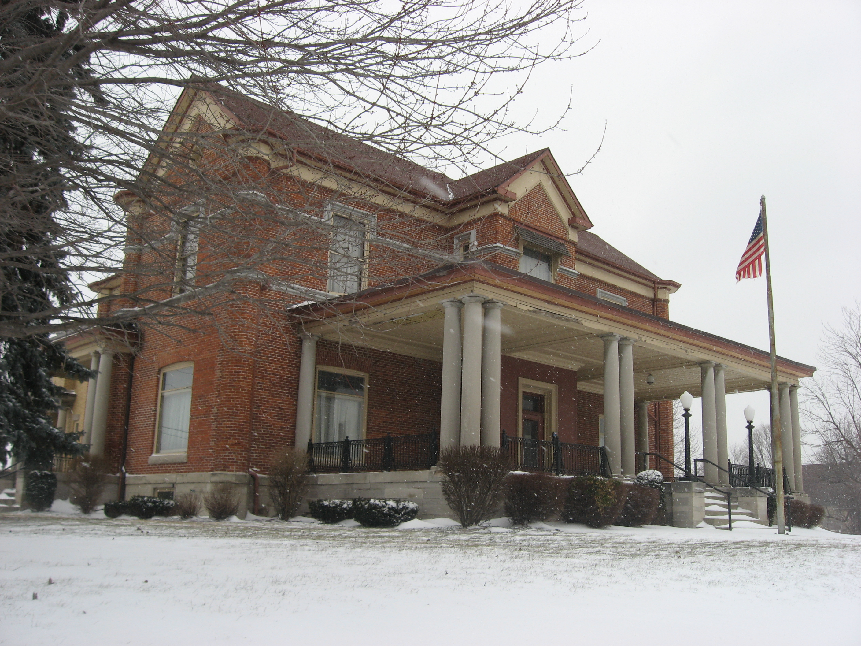 Front and western side of the Kendrick-Baldwin House, located at 706 E. Market Street in Logansport, Indiana, United States. Built in 1860, it is listed on the National Register of Historic Places.